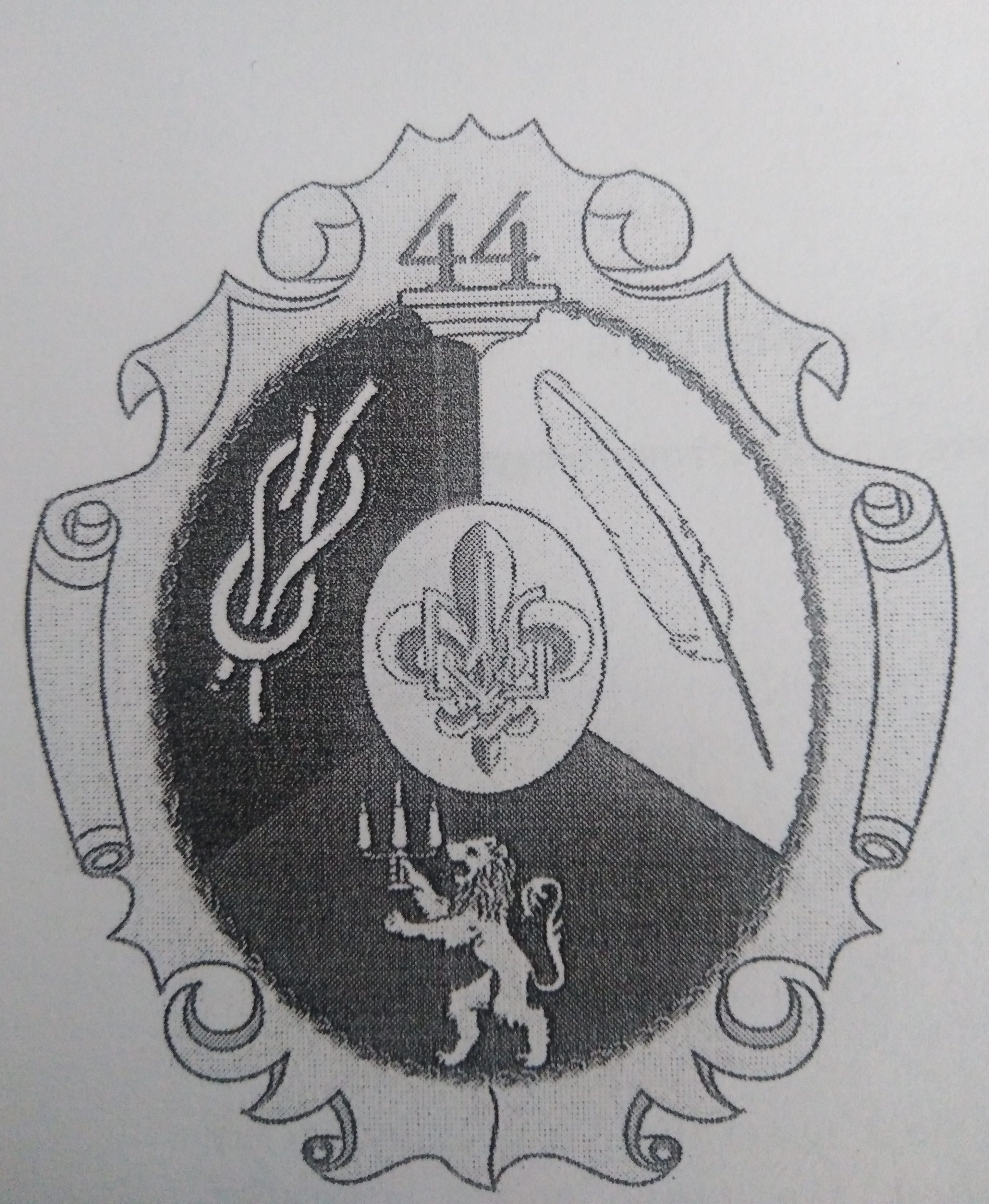 scout emblem